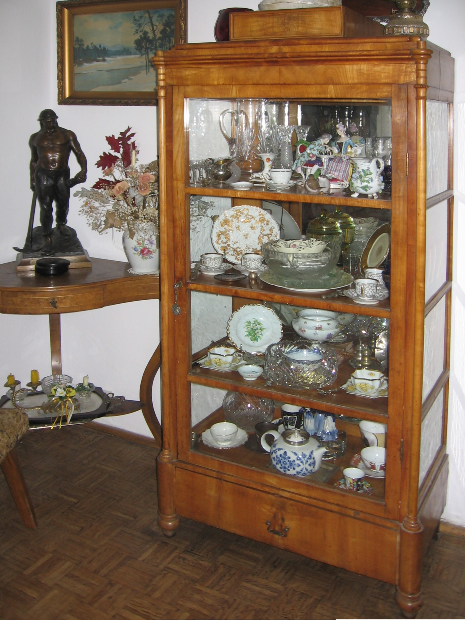 China cabinet with decorative crockery